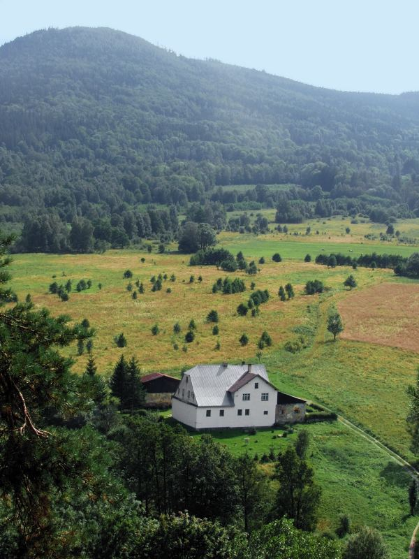 Łysiec mountain in Bialskie Mountain, Sudetes, Poland.